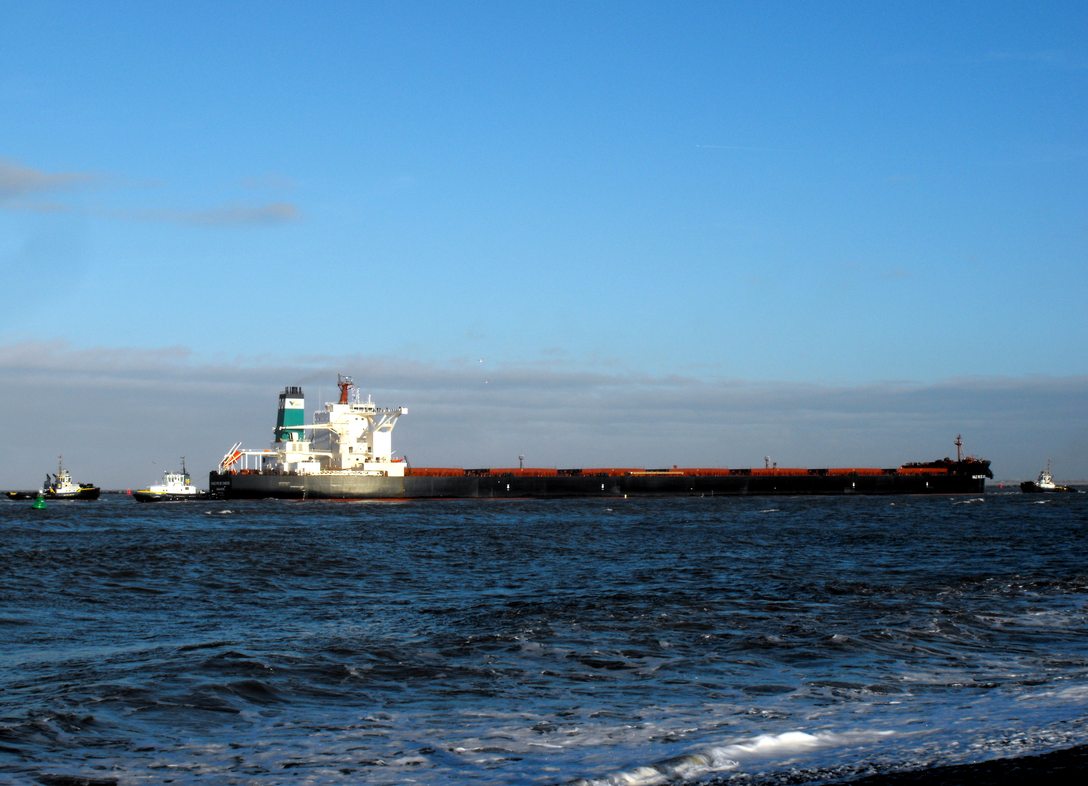 Vale Rio de Janeiro (IMO 9572329), one of the world's largest bulk carriers, arriving at Rotterdam on 8 January 2012.